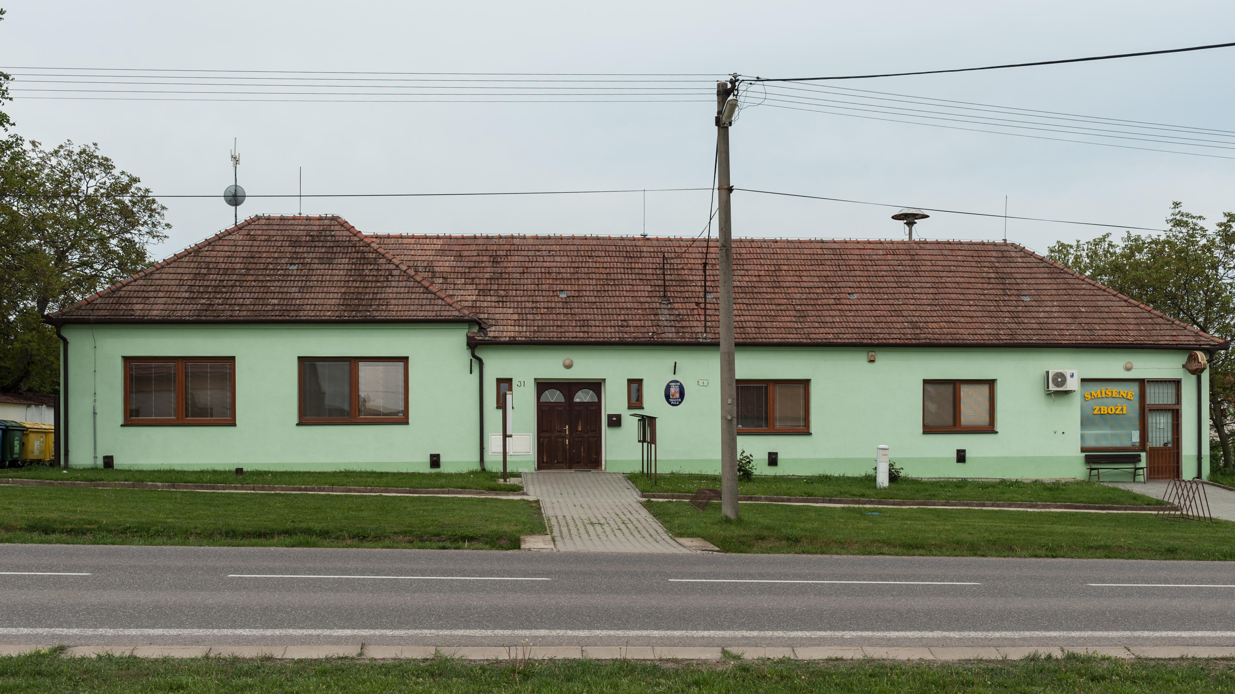 Wikitown Hustopeče: Trnové Pole